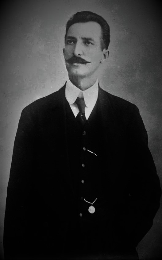 Vicepresident of Mexico (1911-13)